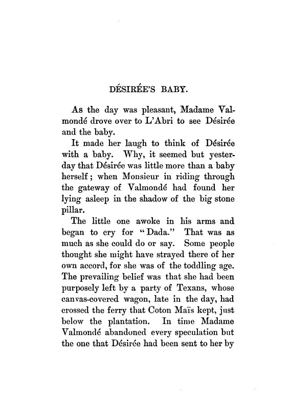 Page 147 from Bayou Folk by Kate Chopin (Houghton Mifflin, 1894), featuring the opening page from her short story "Désirée’s Baby". The story had previously appeared in Vogue magazine a year earlier. Via Google Books